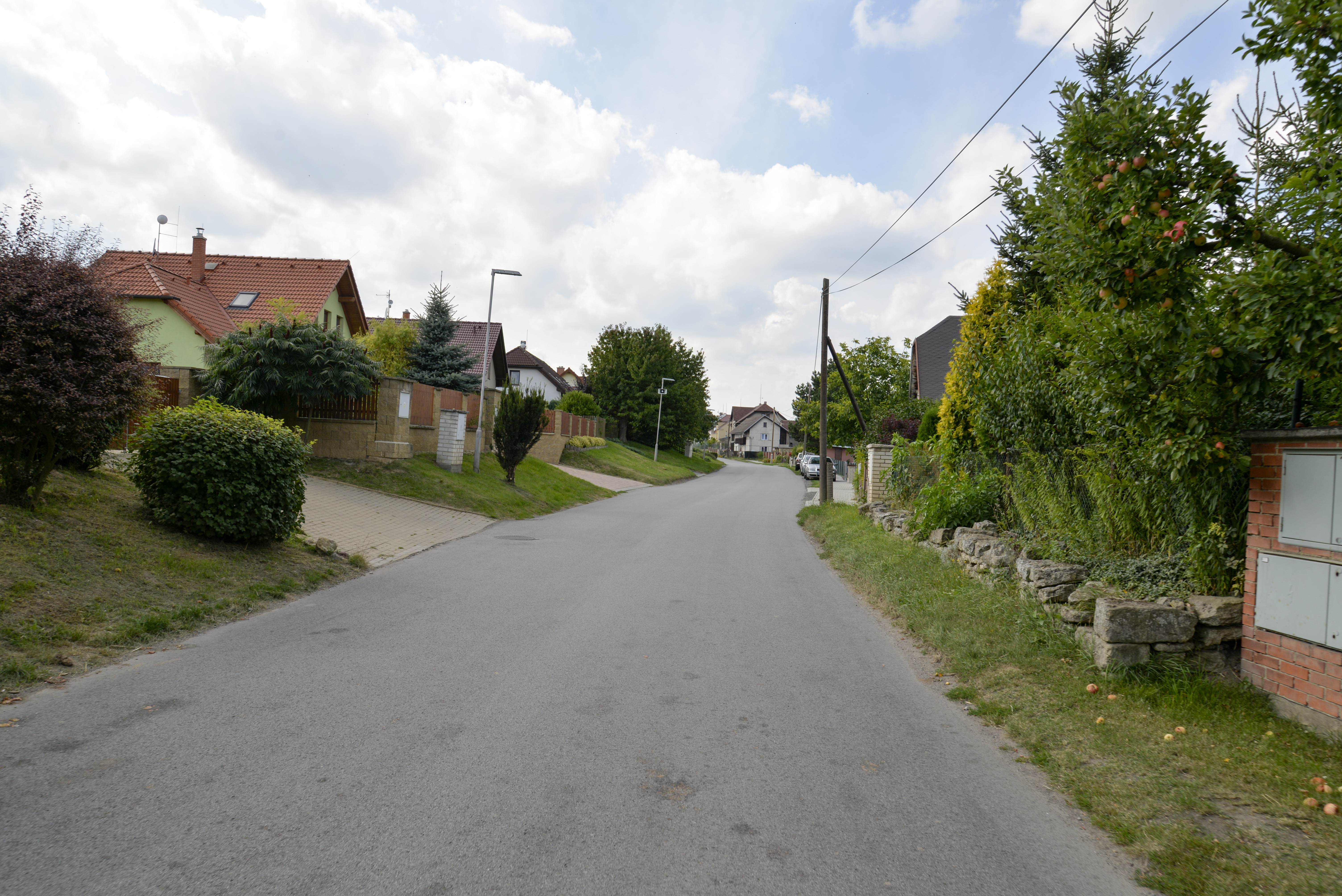 Líny - village in Mladá Boleslav District, part Bukovno, entry to the village from Bukovno